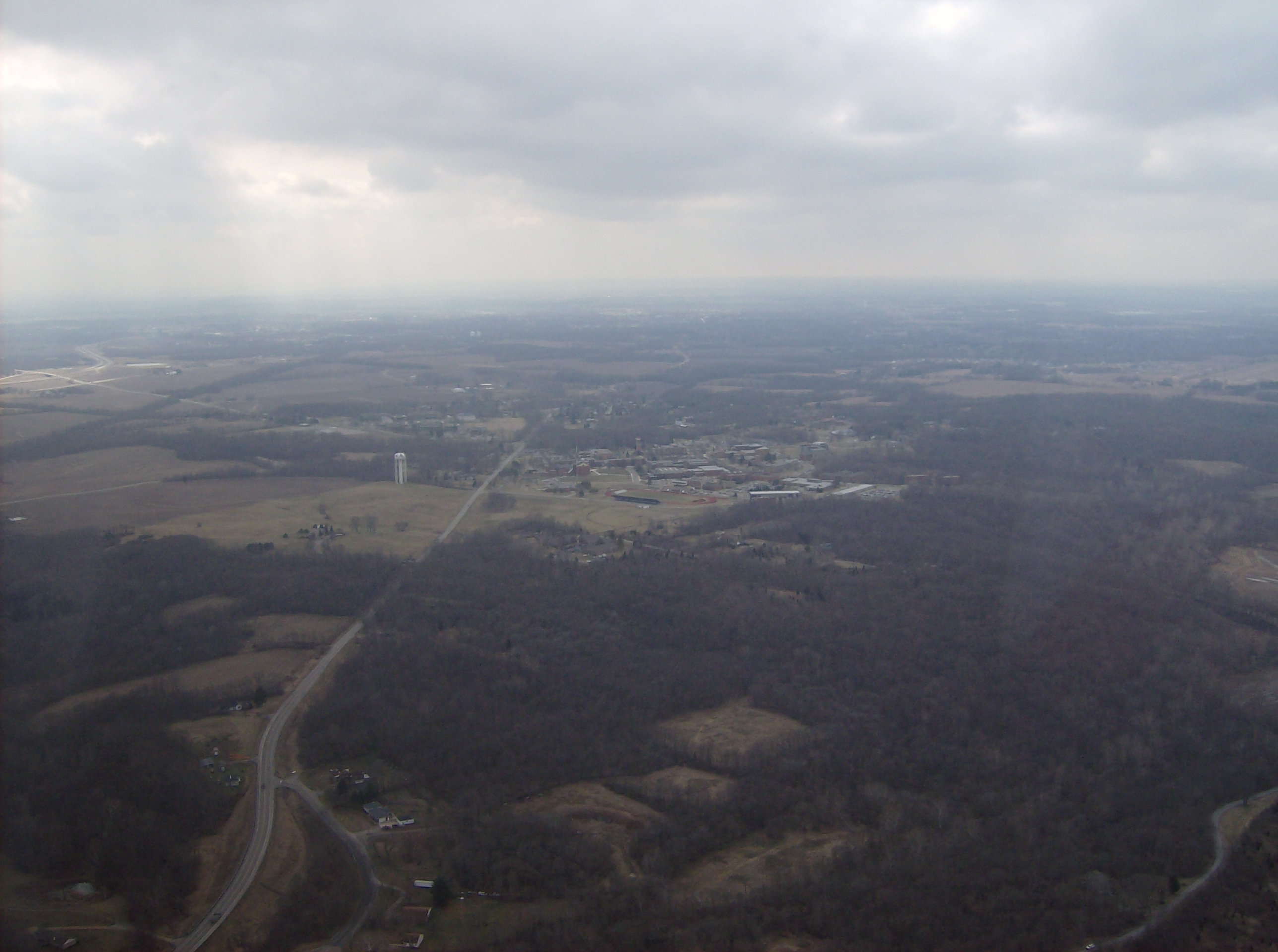 Aerial view of Wilberforce, a community in central Greene County, Ohio, United States, northeast of Xenia. Picture taken from a Diamond Eclipse light airplane at an altitude of 2,200 feet MSL at an bearing of approximately 197º.